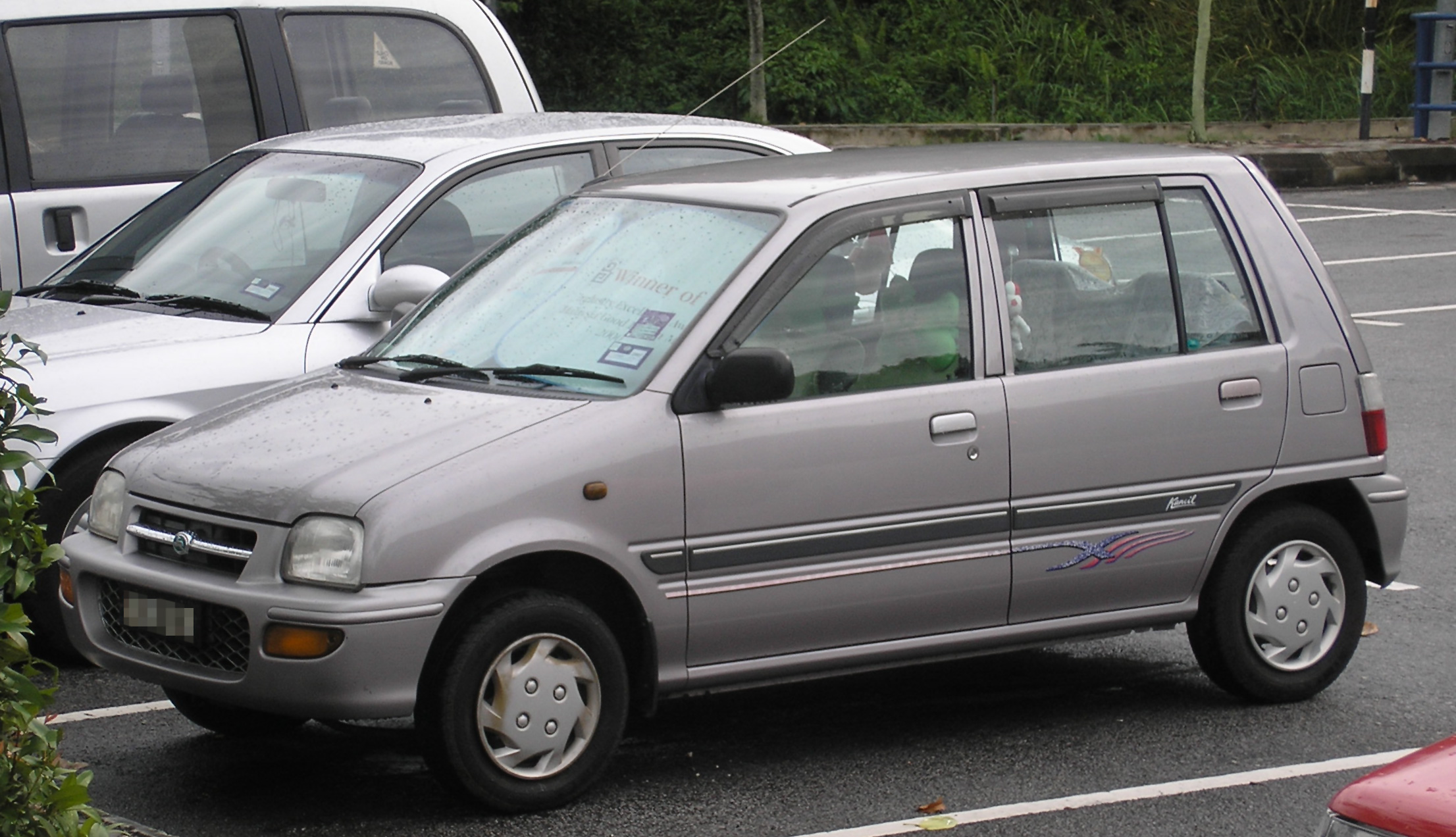 Front-side shot of an first generation, first facelifted Perodua Kancil, in Taman Melati, Kuala Lumpur, Malaysia.